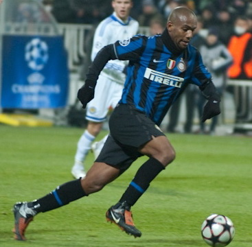 Maicon Douglas Sisenando